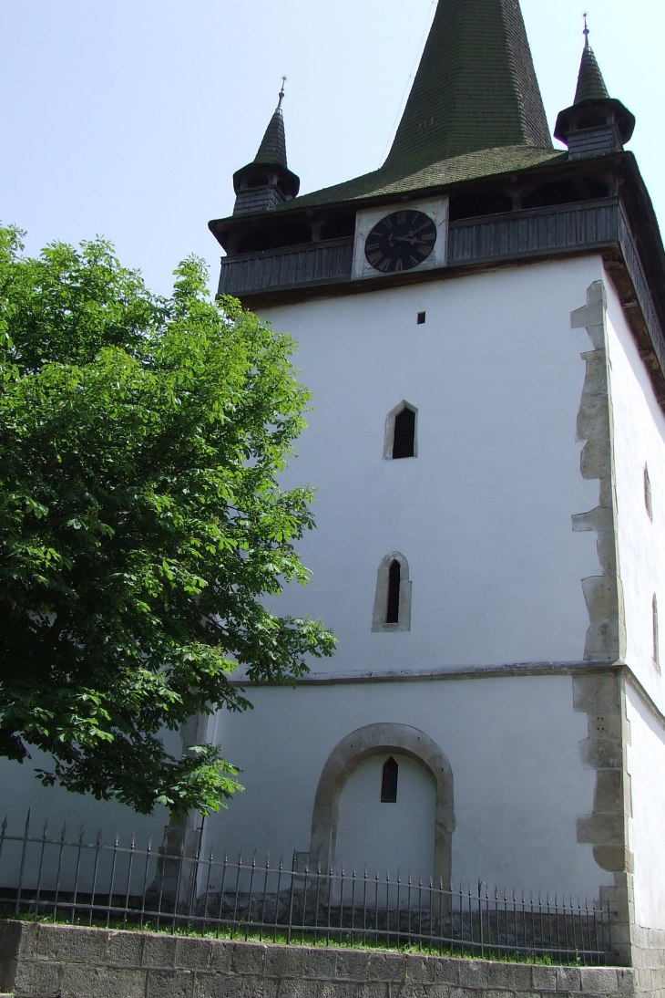 View from city of Huedin, Cluj County, Romania